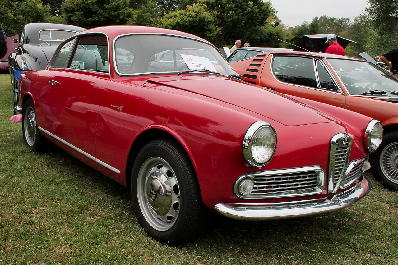 Huntington Beach Concours d'Elegance 2007